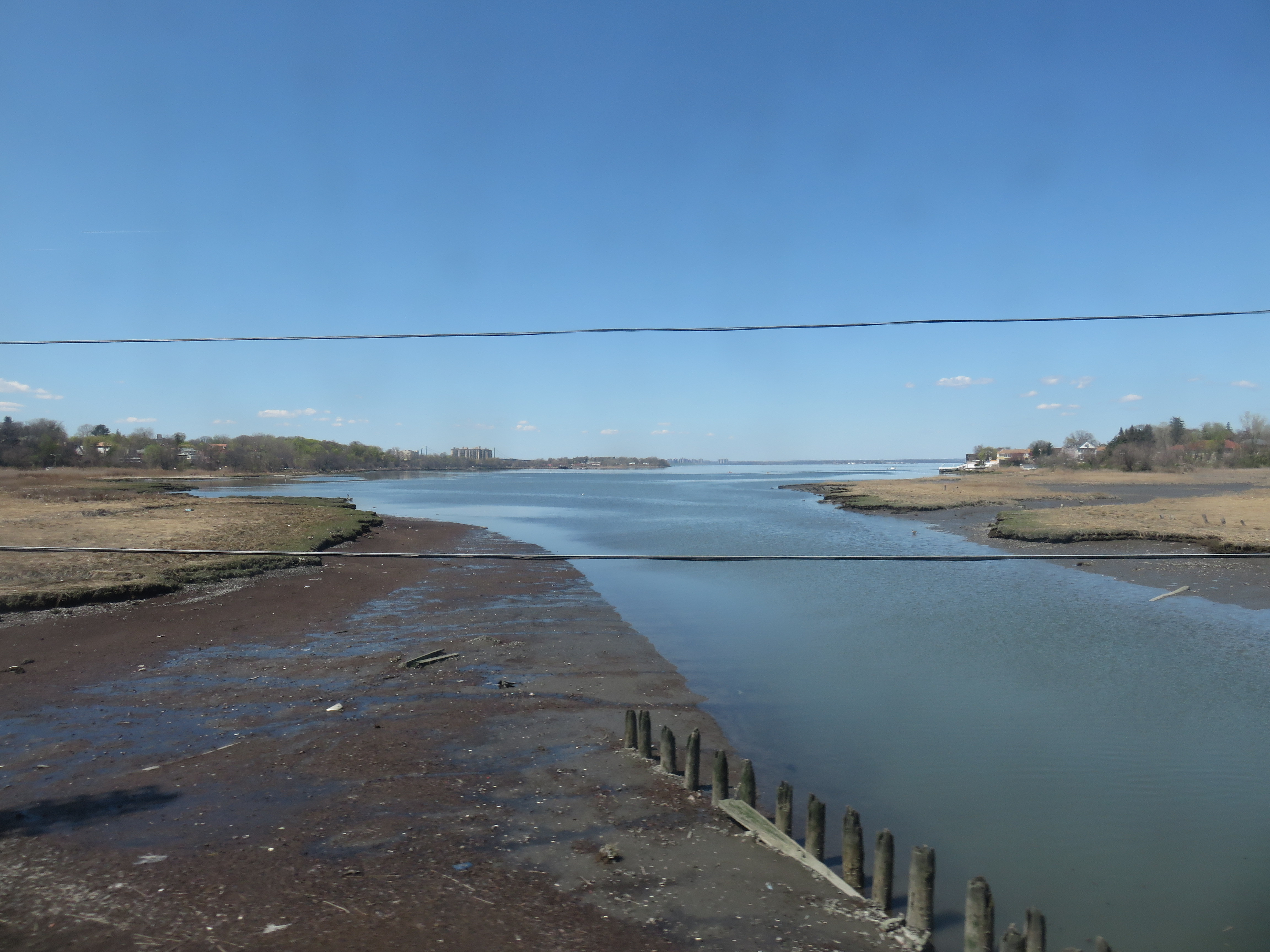 Little Neck Bay from a Long Island Rail Road train in 2017